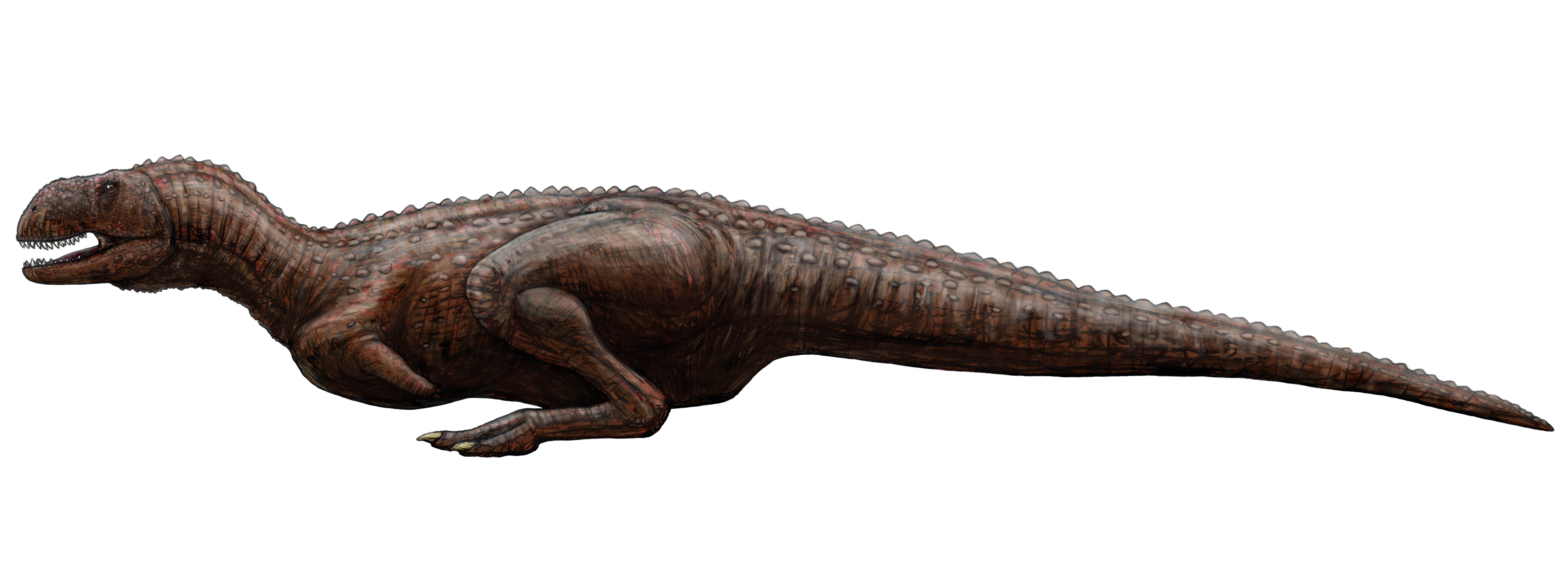 Indosuchus raptorius, body based on related genera.